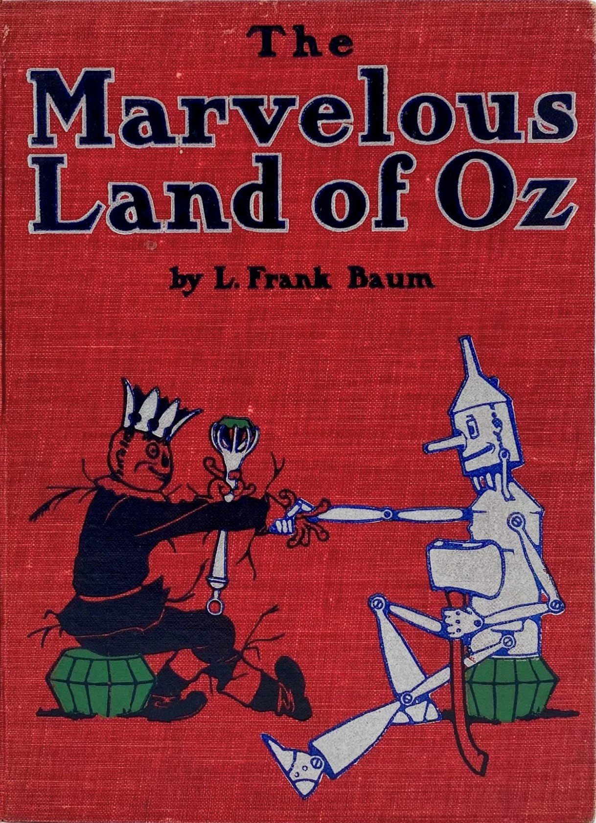 Book cover of The Marvelous Land of Oz (1st edition), published in 1904.